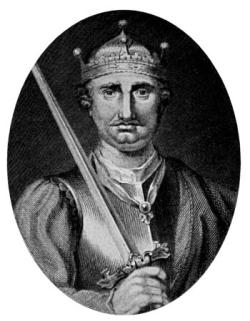 This is a romantic eighteenth or nineteenth century artists impression of King William I of England , probably by, or based on work by, the engraver George Vertue (1684 – 1756). In it he is shown wearing plate armour which was not in general use at the time of his reign.